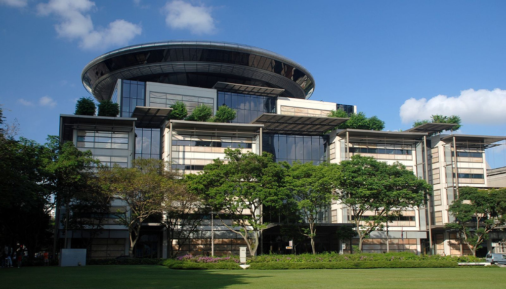 The Supreme Court Building in Singapore, designed by Foster and Partners. The disc at the top of the building houses the courtroom of the Court of Appeal, Singapore's final appellate court.